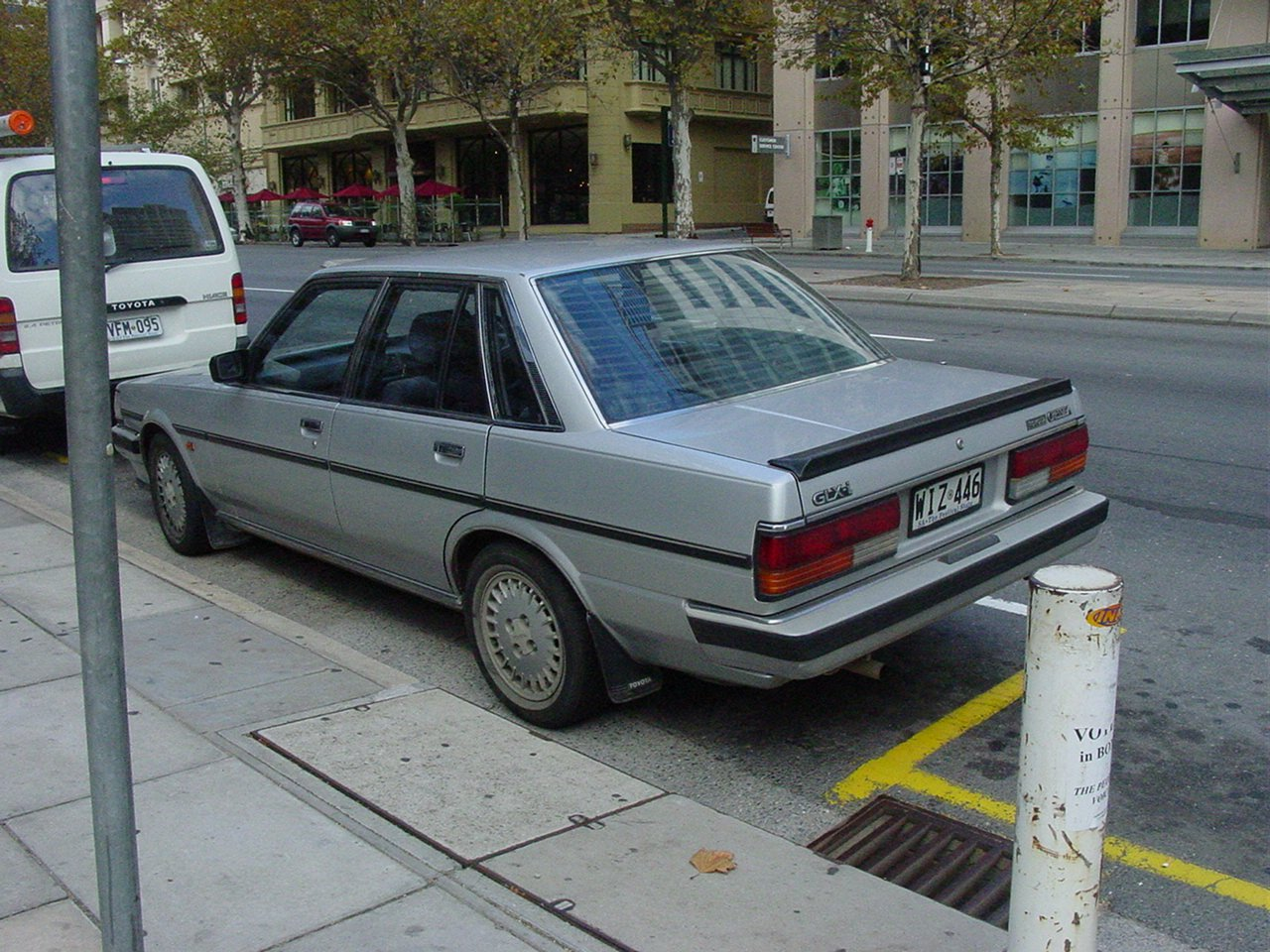 Bit of an old mans favourite, they are now relatively cheap and prized for the easy conversion to Supra power, either a 7mgte, 1jzgte or 2jzgte depending on budget.